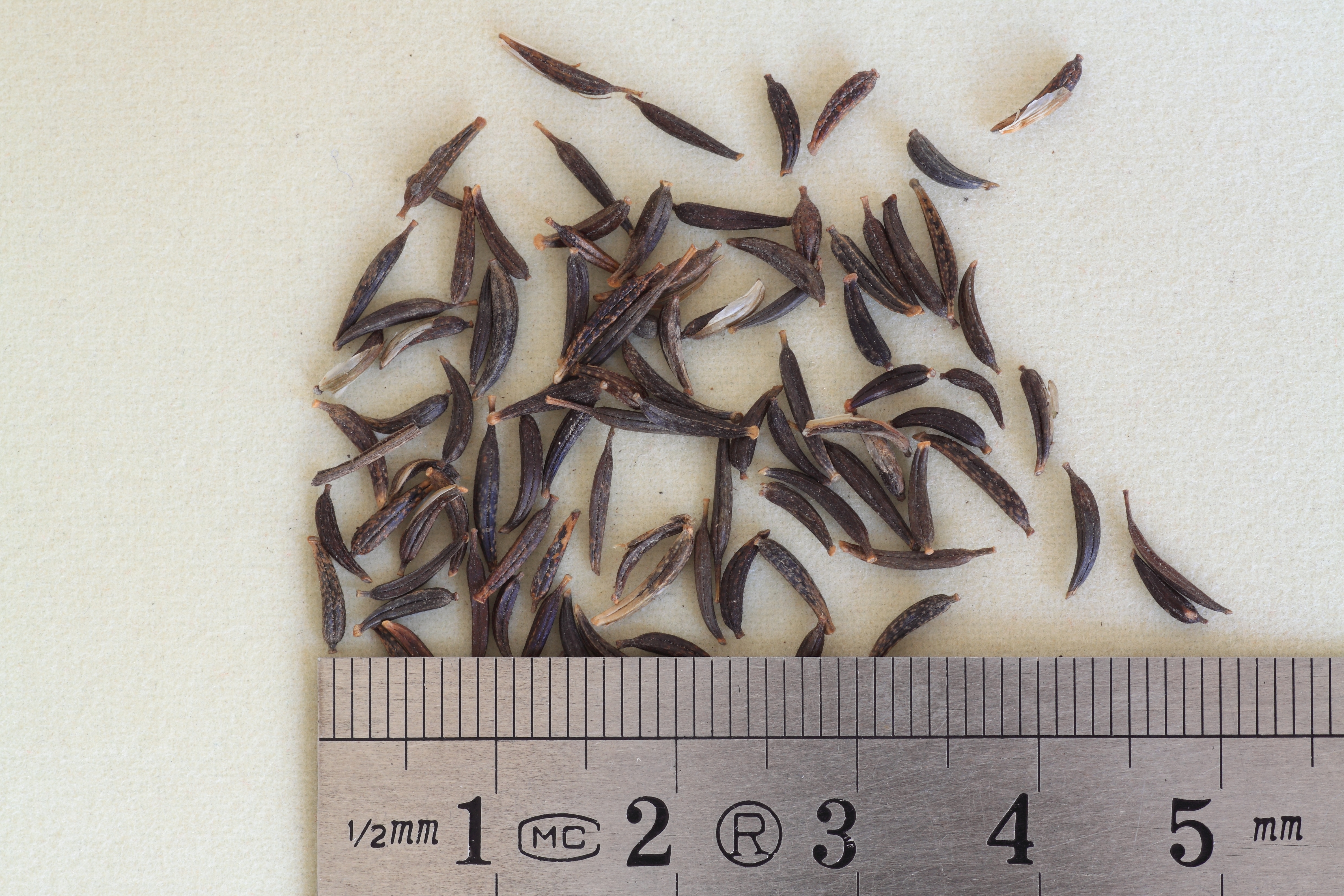 Mexican Aster žemaitėška: Buoba